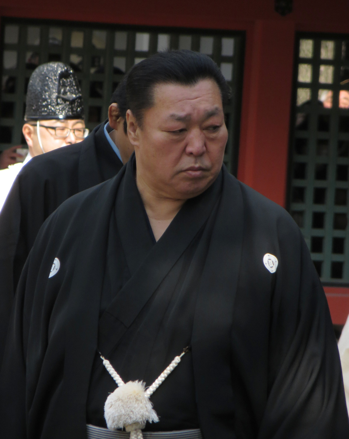 Kitanoumi Toshimitsu in Sumiyoshi taisha.